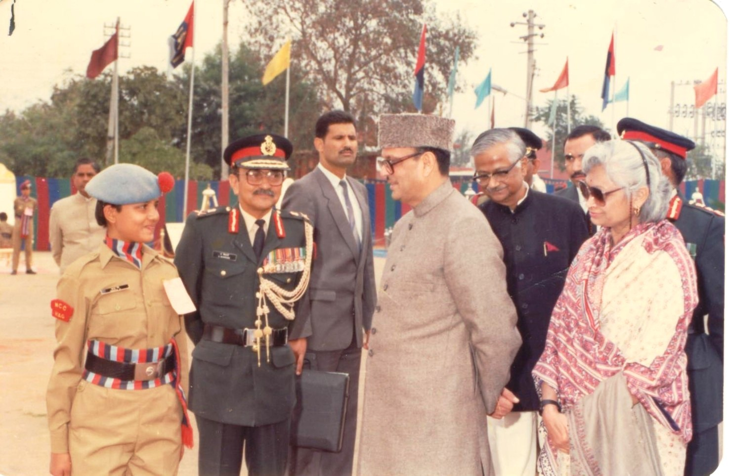 D Roopa With the then Prime Minister, Sri V P Singh and Minister for Science & Technology Sri Raja Ramanna; as Best NCC cadet, represented Karnataka in the prestigious republic day camp at New Delhi while in class 9